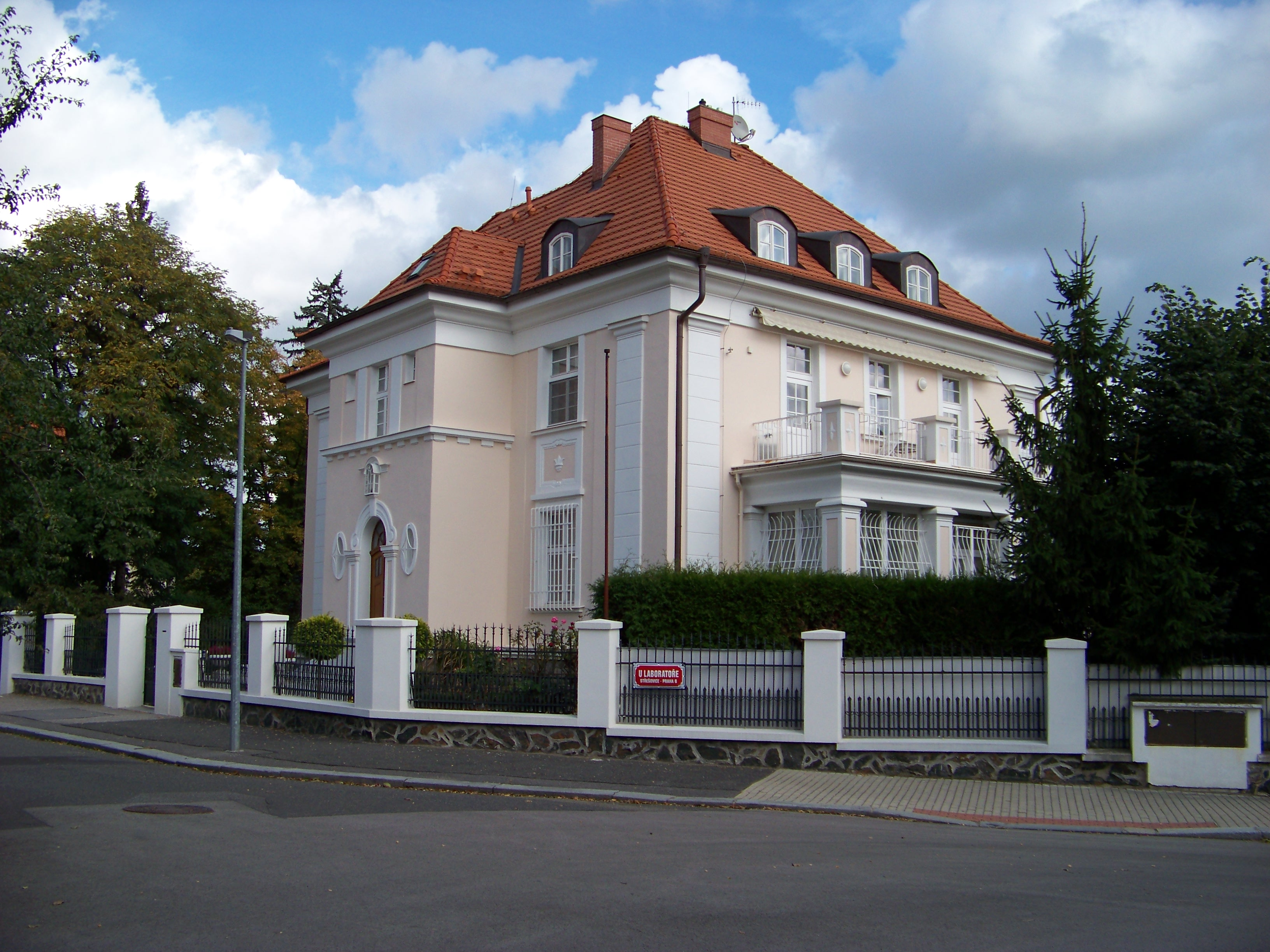 Prague-Střešovice, the Czech Republic. U laboratoře 538/22, Dělostřelecká 538/28. - OpenStreetMap(Info)